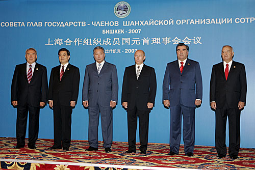 BISHKEK. Before the beginning of the session of the Shanghai Cooperation Organisation Council of Heads of State. From left to right: President of Kazakhstan Nursultan Nazarbaev, President of the People's Republic of China Hu Jintao, President of Kyrgyzstan Kurmanbek Bakiev, President of Russia Vladimir Putin, President of Tajikistan Emomali Rakhmon, President of Uzbekistan Islam Karimov.